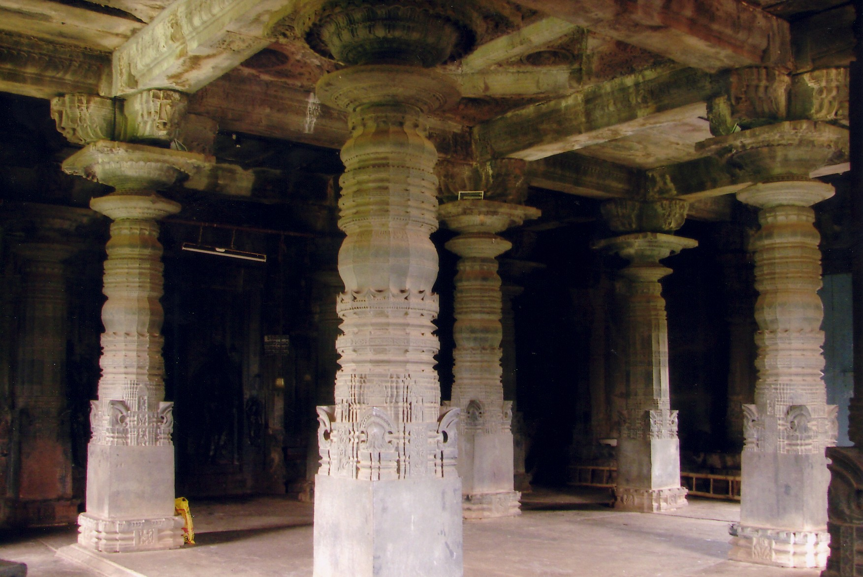 This Photograph was taken by self (Dinesh Kannambadi) in Ikkeri at the Aghoreshwara temple (also spelt Aghoreshvara), Shivamogga district, Karnataka, India